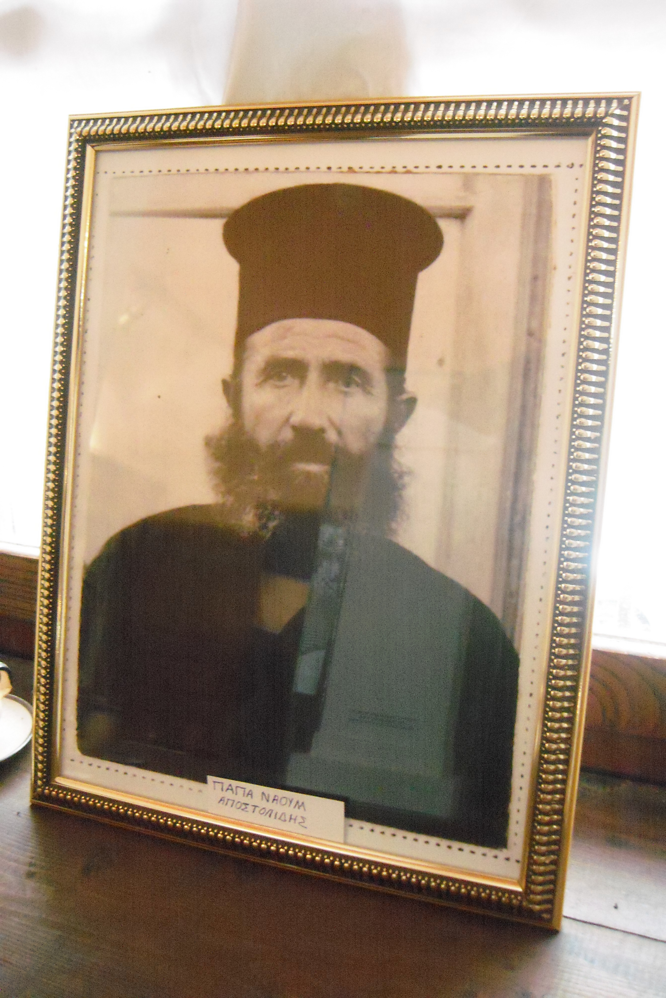 Naoum Apostolidis Portrait in Museum of the Macedonian Struggle in Kastoria